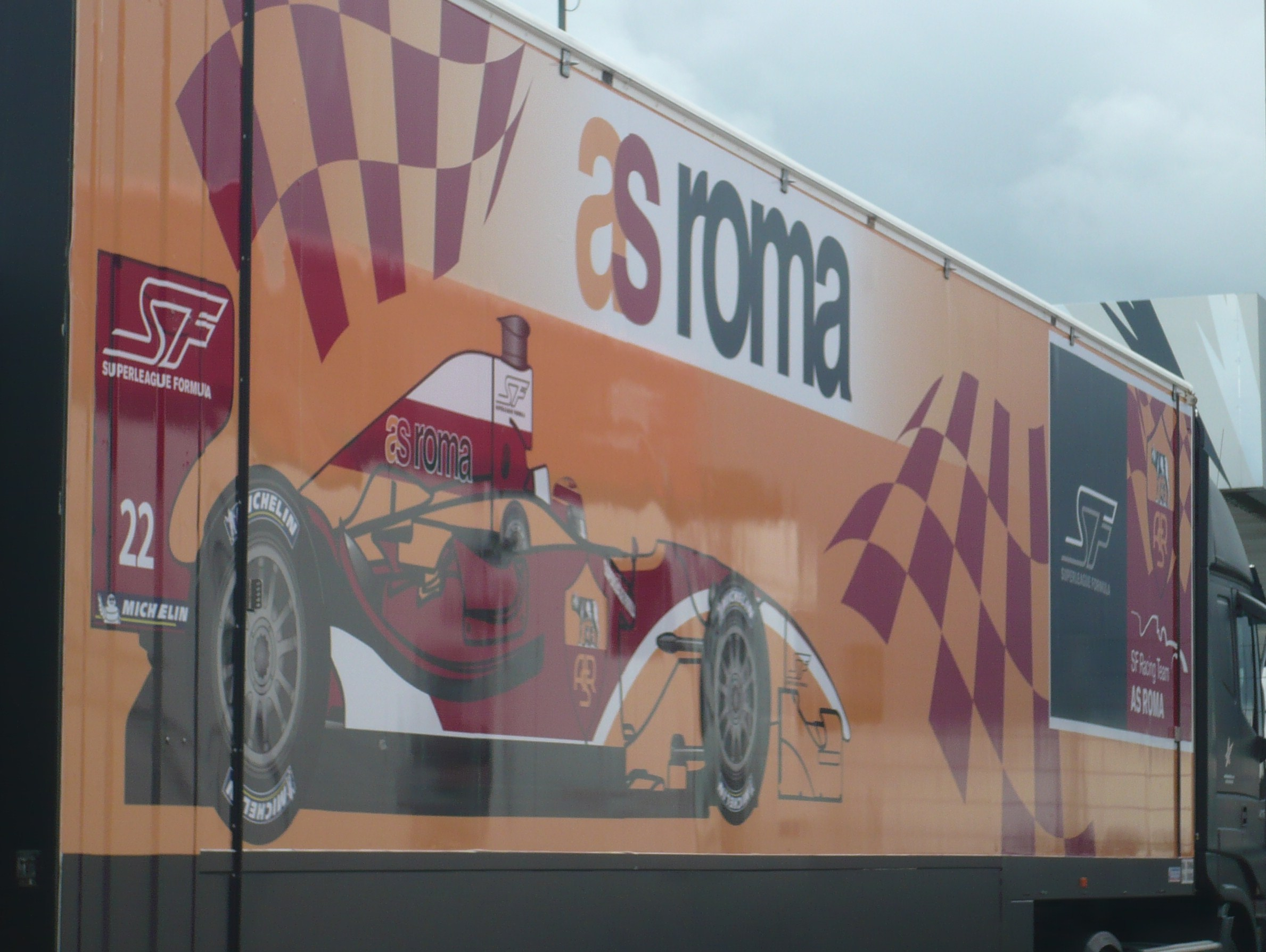 AS Roma team truck in the paddock. Photo taken by me at Silverstone's 2010 SF round.